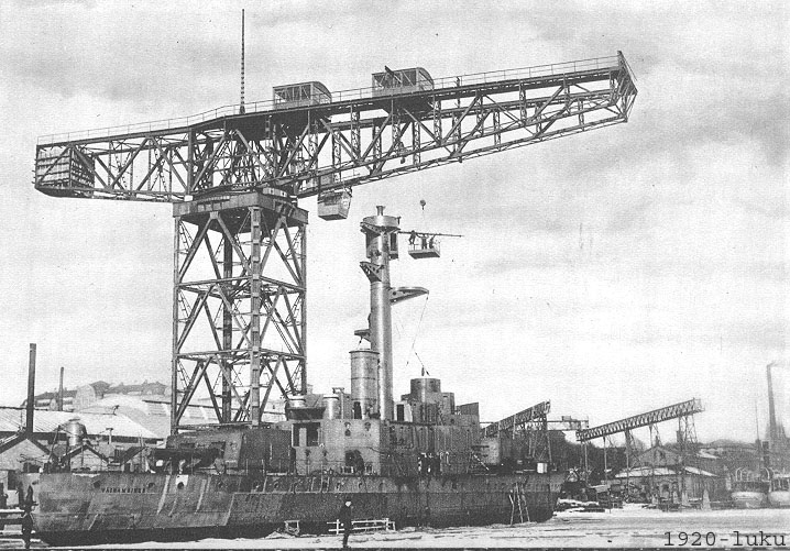 Coastal defence ship Väinämöinen under construction at Crichton-Vulcan shipyard in Turku, Finland.